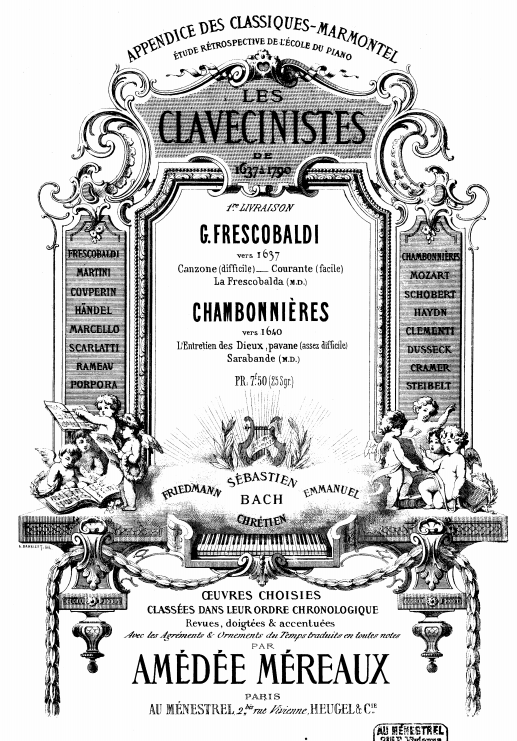 book cover